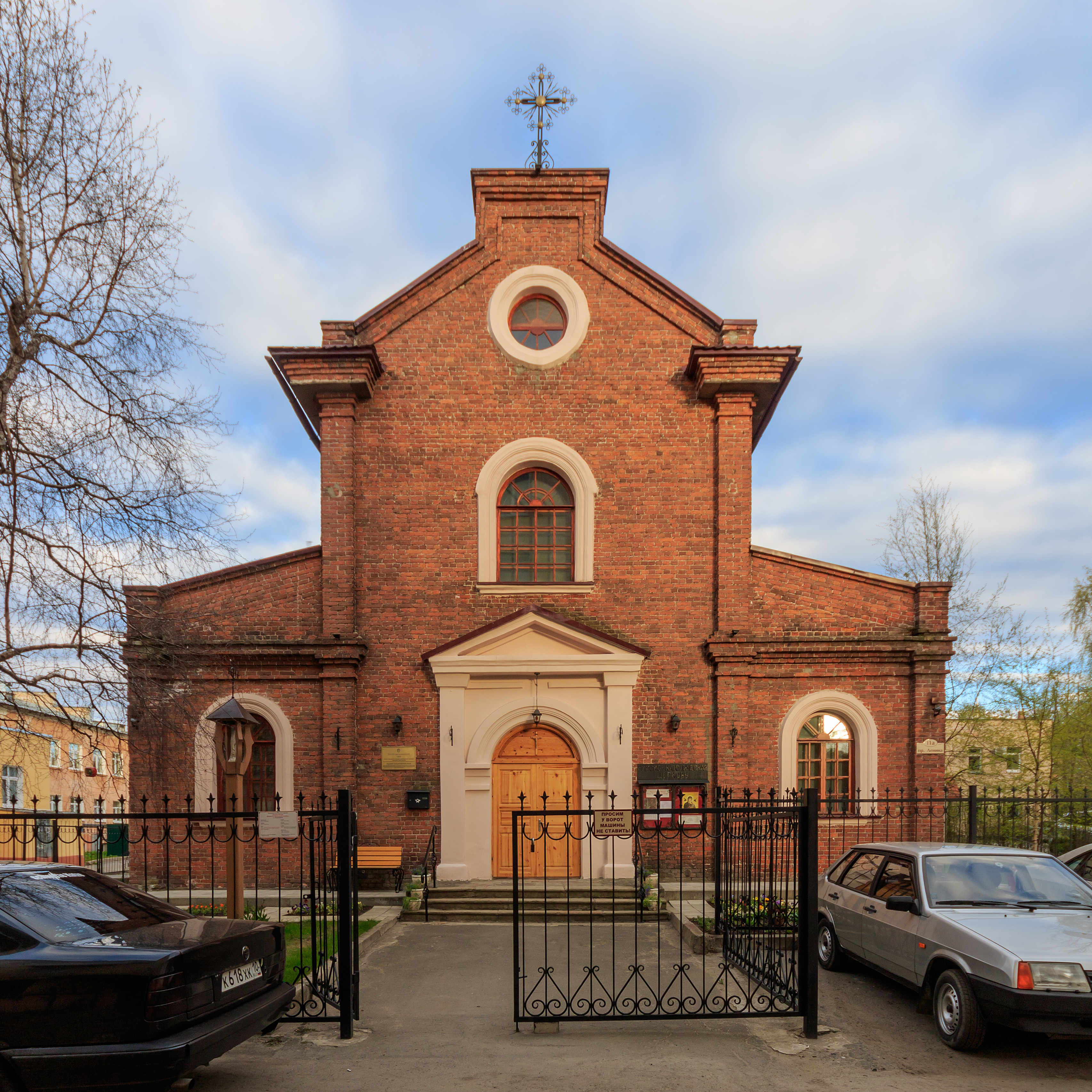 Catholic church in Petrozavodsk, Republic of Karelia (Russia).